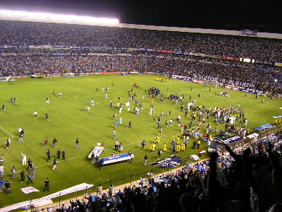 Corregidora Stadium, Querétaro